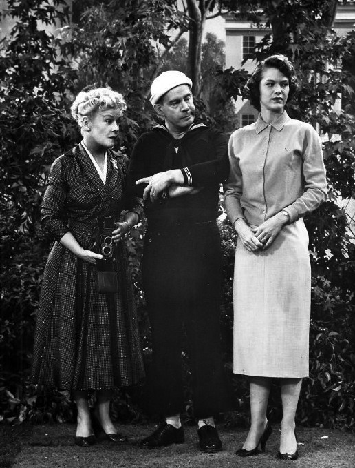 Photo from the television program December Bride. From left-Spring Byington (Lily Ruskin), Harry Morgan (Pete Porter), Frances Rafferty (Ruth Henshaw). When Lily accidentally destroys an original photograph, her daughter, Ruth, and neighbor, Pete, try to help her take a suitable replacement.